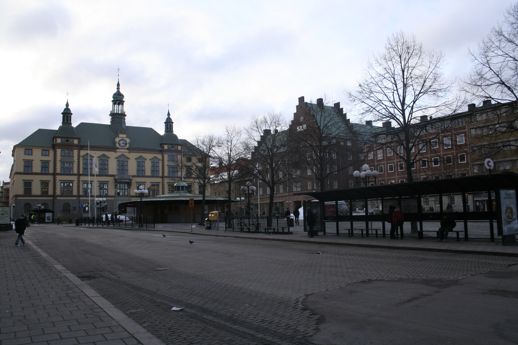 Fristadstorget in Eskilstuna.